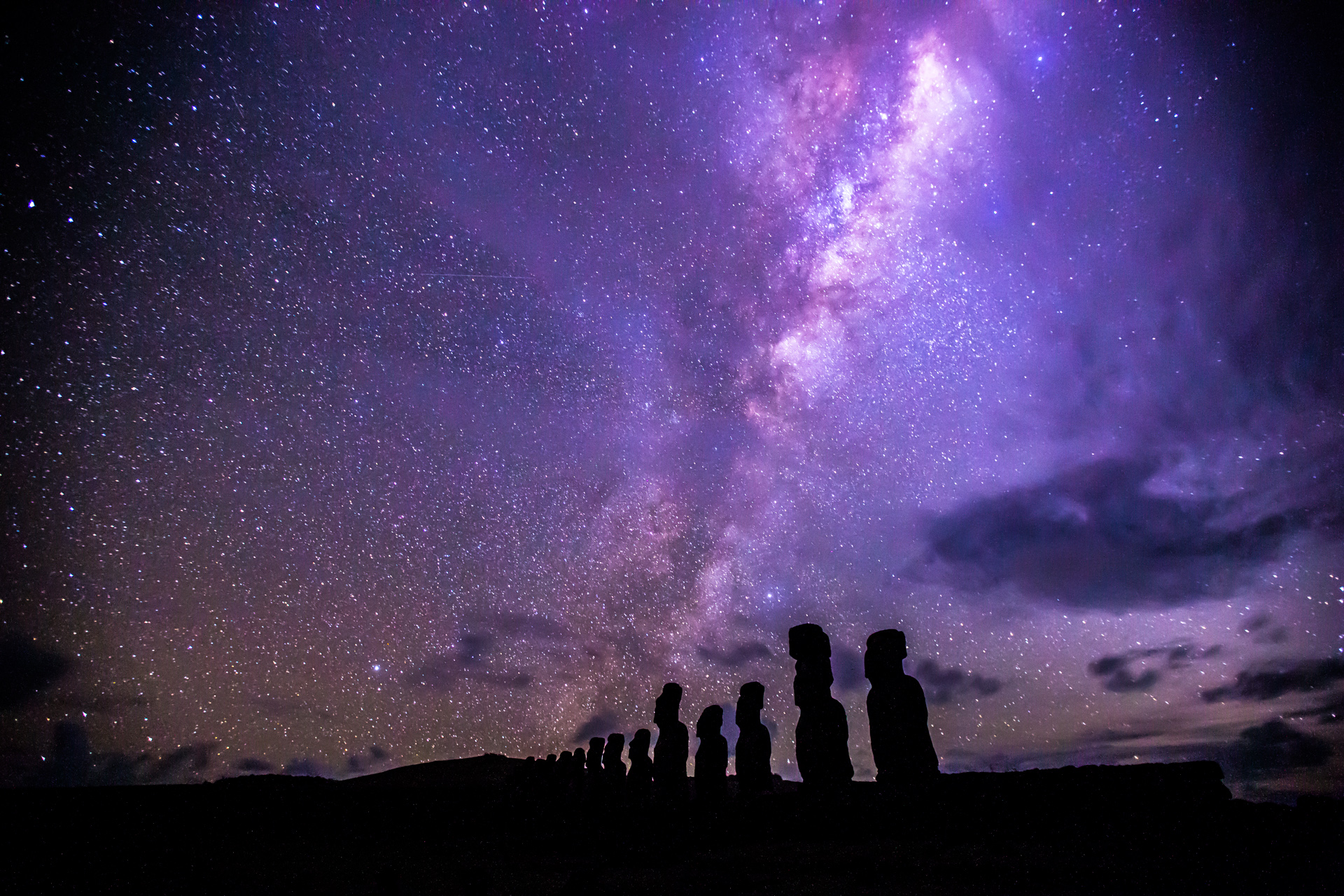 Moai Under the Milky Way, Ahu Tongariki, Easter Island. Photograph by Anne Dirkse